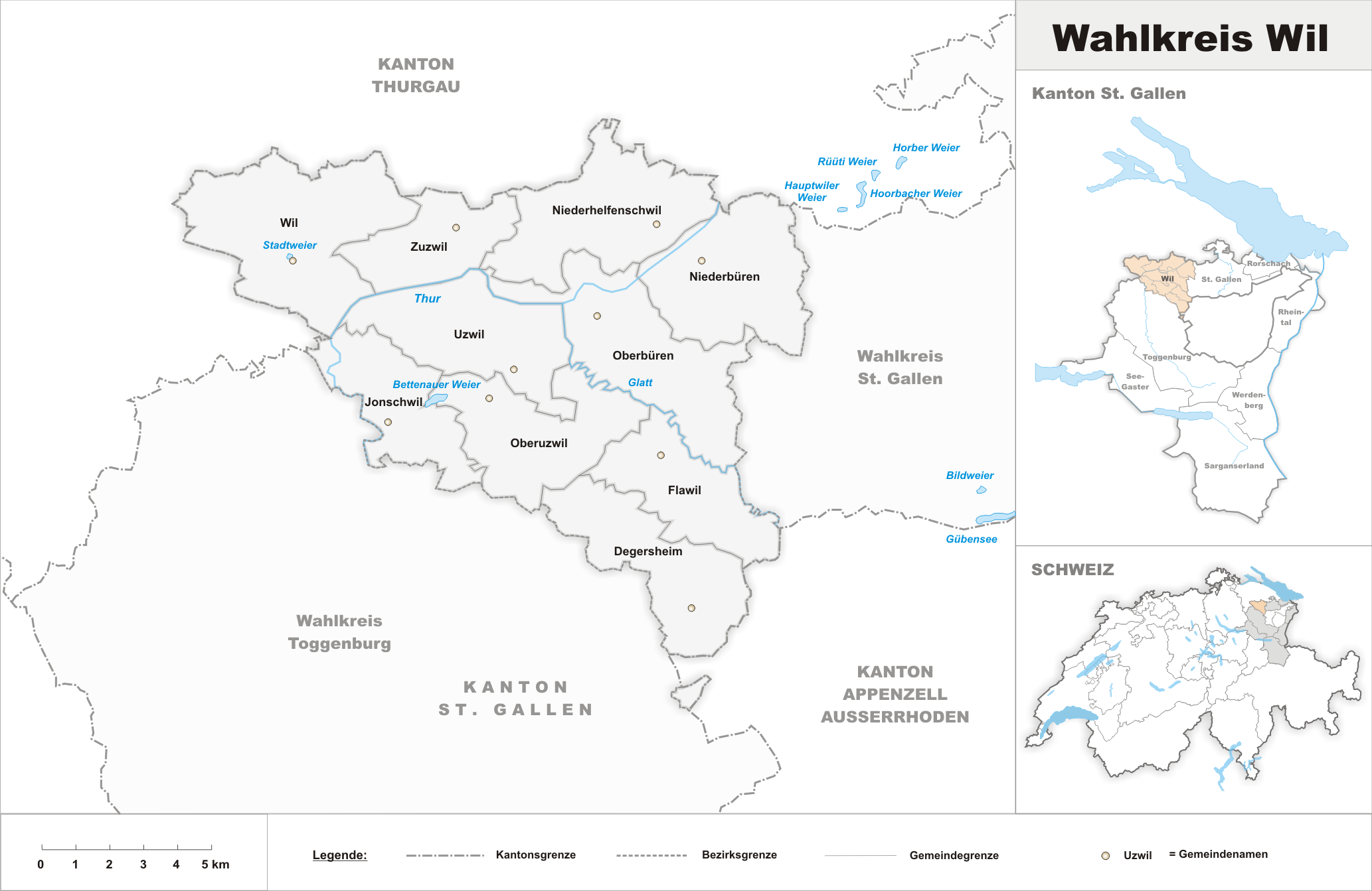 Municipalities in the district of Wil